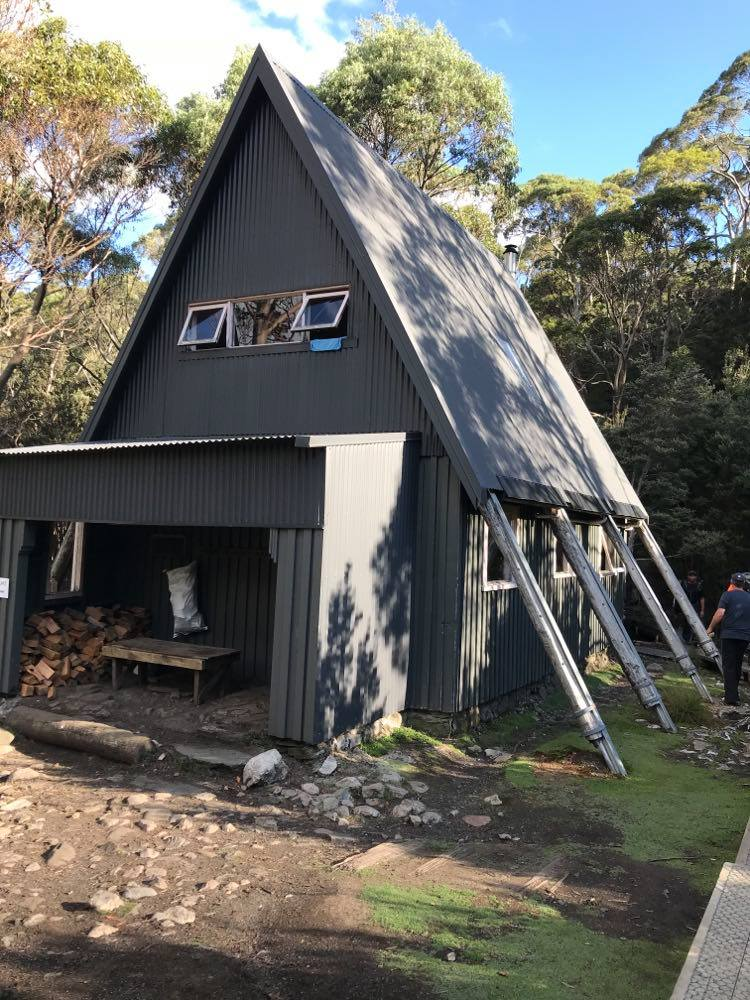 Photo of the Exterior of Scott-Kilvert Memorial Hut taken in 2020